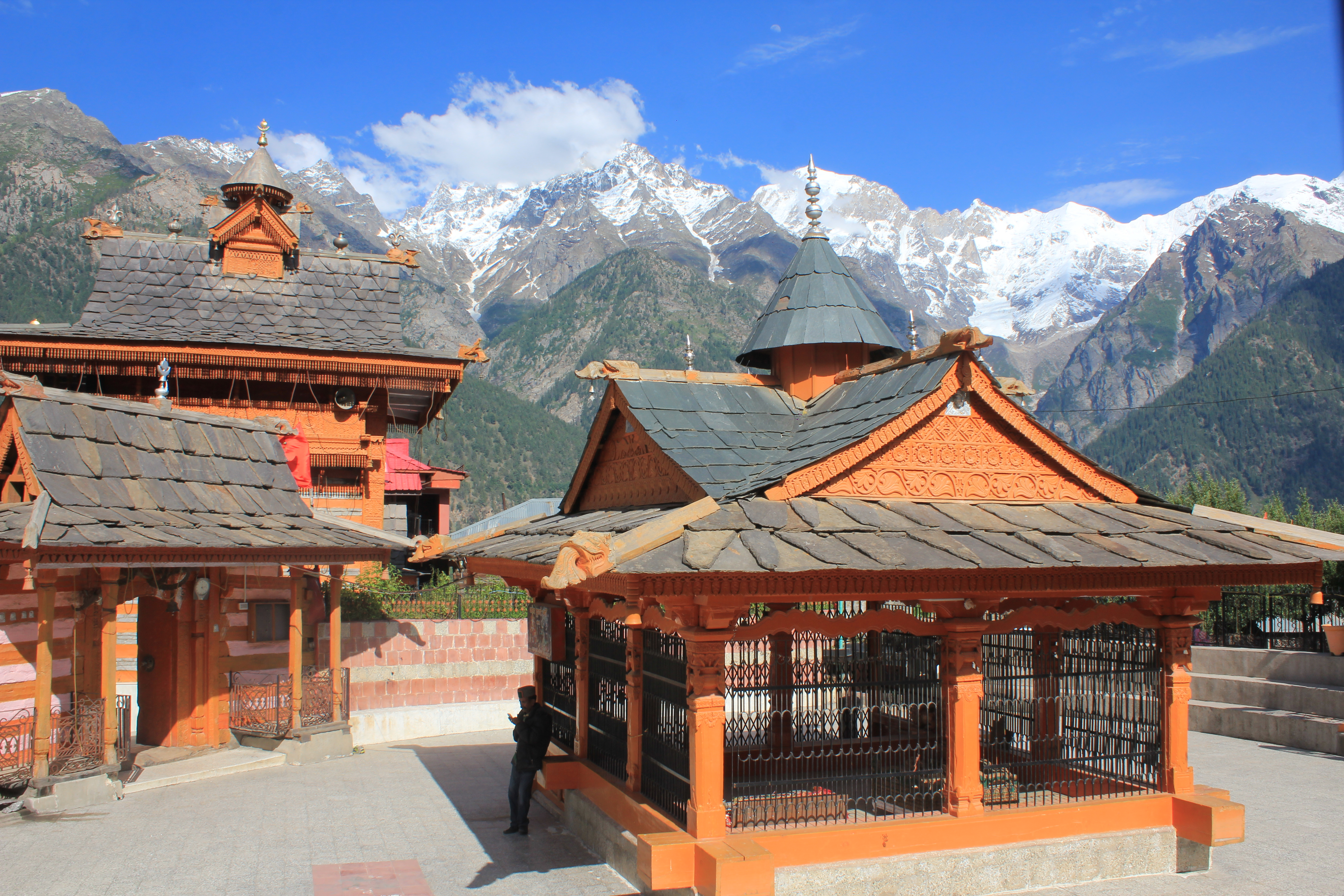 Chandika Devi temple at Kothi near Rekong Peo Himachal Pradesh India.Kinnaur Kailash range as backdrop